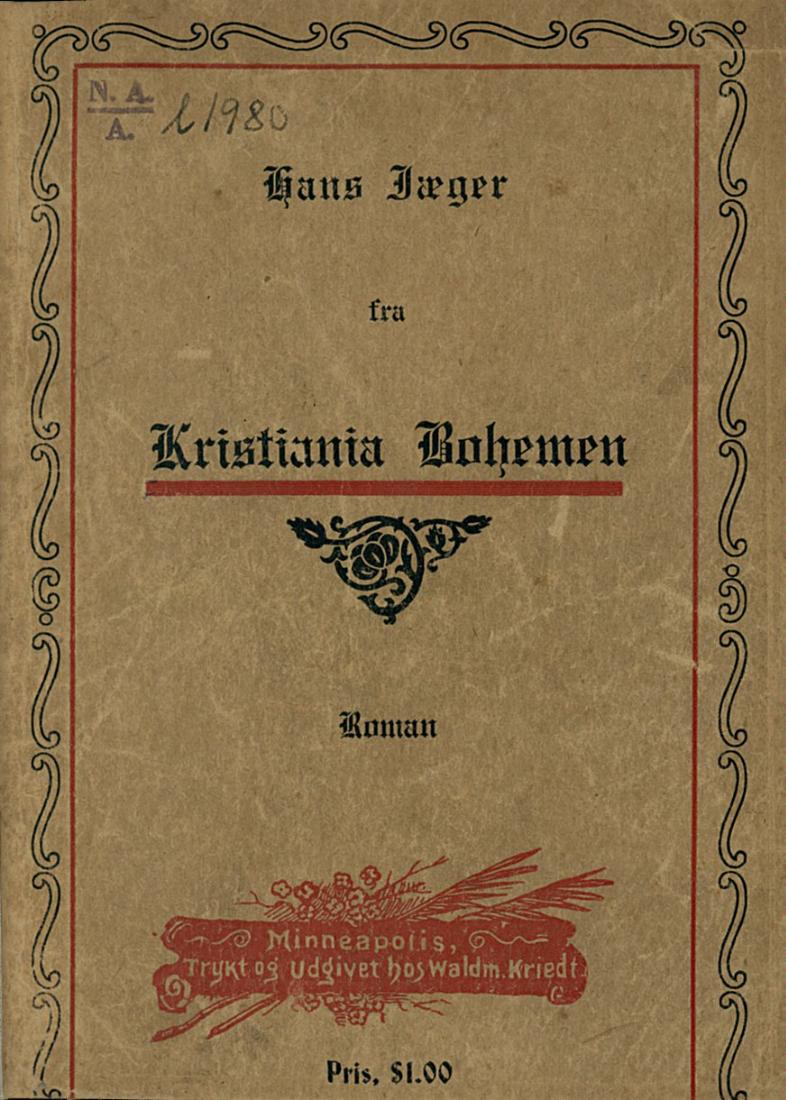 Cover of Fra Kristiania-Bohêmen. A novel by Hans Jæger (1854 - 1910)